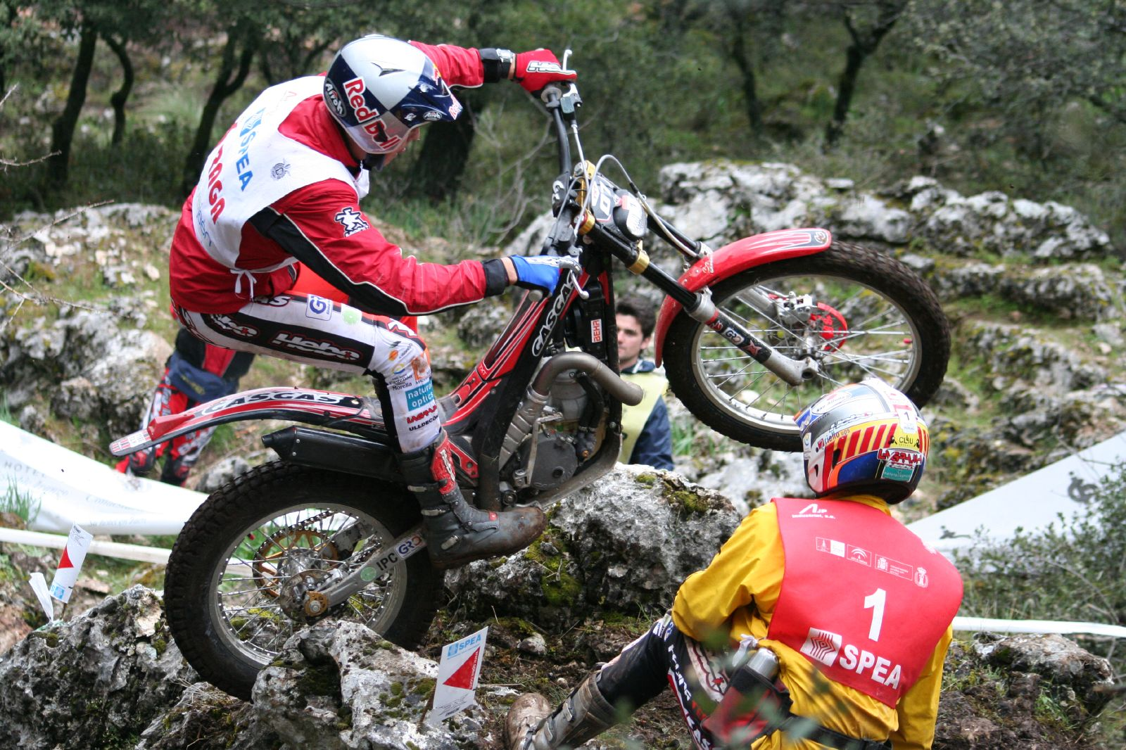 Trial FIM Mancha Real Adam Raga @ FIM Trial World Championship 2007 R1